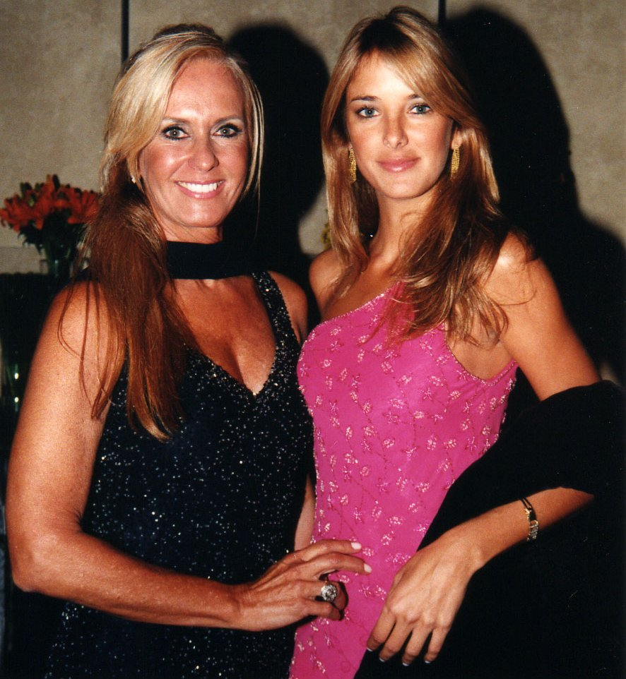 The real life Girl from Ipanema Helô Pinheiro and her daughter Ticiane Pinheiro.Girl From Ipanema with the daugther